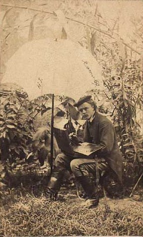 Harald Adolf Nikolaj Jerichau (1851-1878), Danish landscape painter